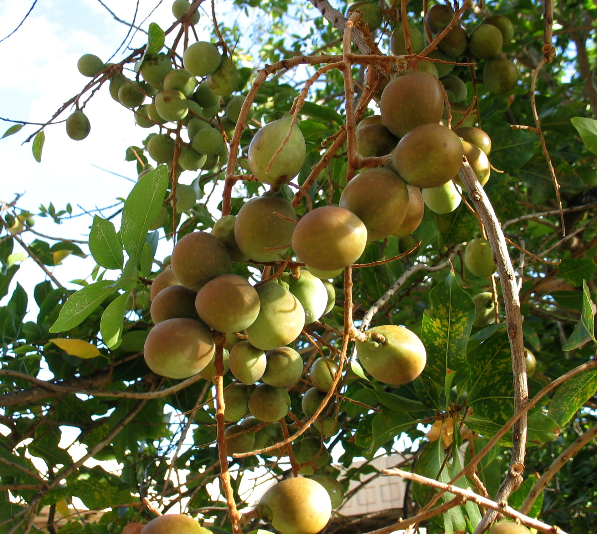 Lonomea, Āulu, or Oahu soapberry Sapindaceae Endemic to the Hawaiian Islands (Kauaʻi & Oʻahu only) Oʻahu (Cultivated) Green fruits. The roundish or oval fruits resemble dates and smell like figs or raisins, but are not edible. The very hard blackish seeds were used by early Hawaiians for medicinal purposes and to string for gorgeous permanent lei. Seeds lei are still made today. NPH00002